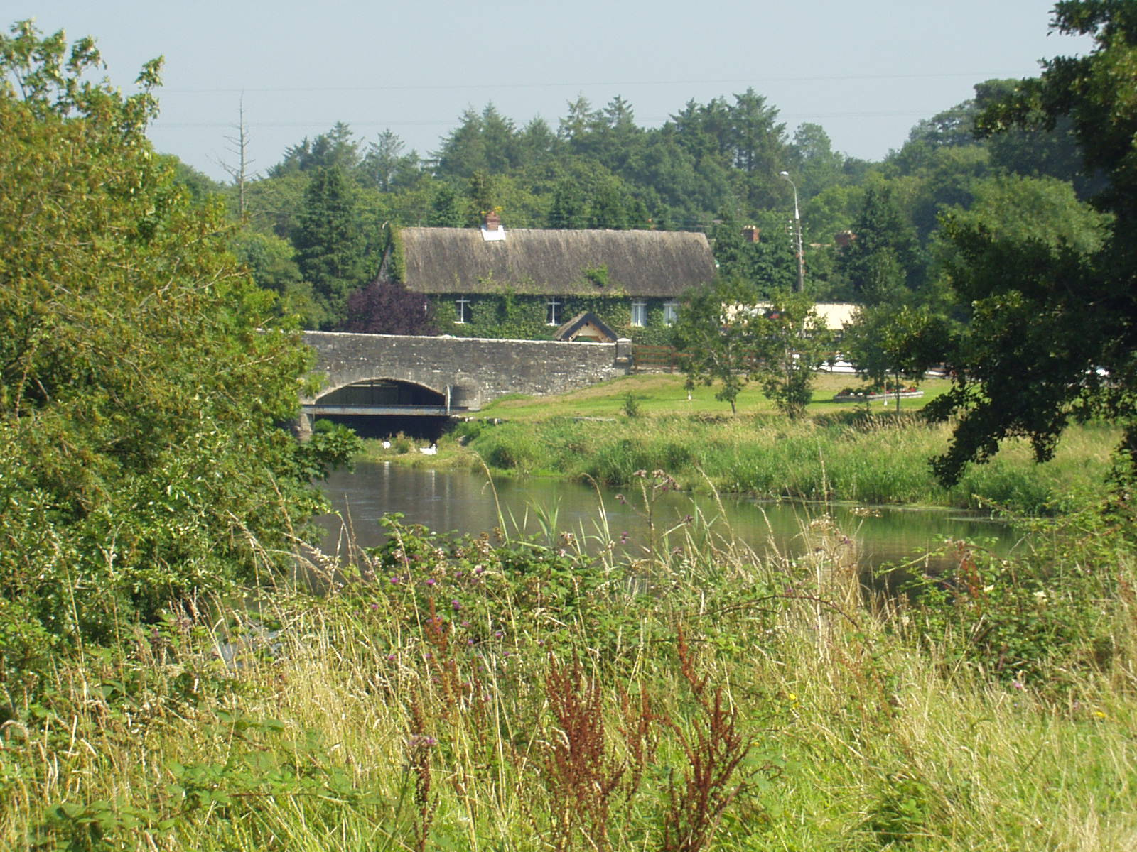 Butlersbridge, County Cavan